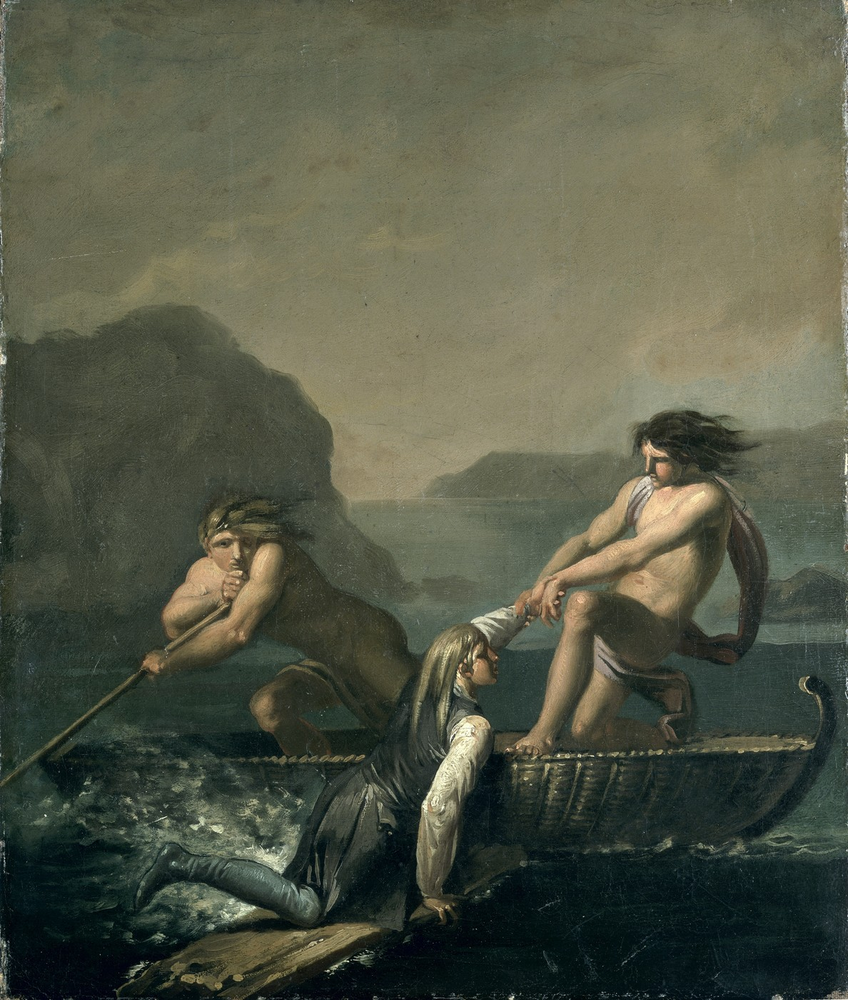 Scenes from 'Niels Klim's Subterranean Journey' by Baron Ludvig Holberg